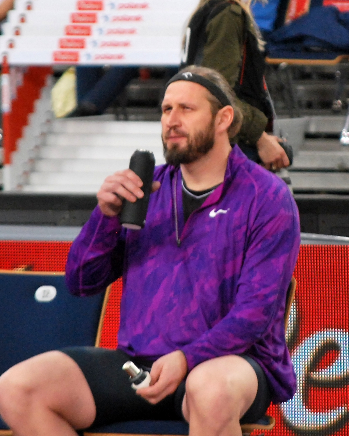 Tomasz Majewski, shot putter from Poland, Pedro's Cup Łódź 2016